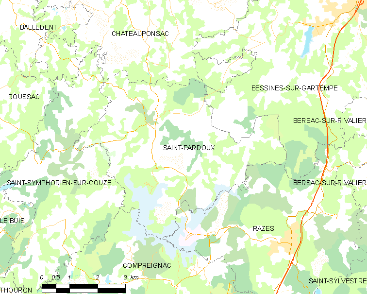 Map of French municipality Saint-Pardoux